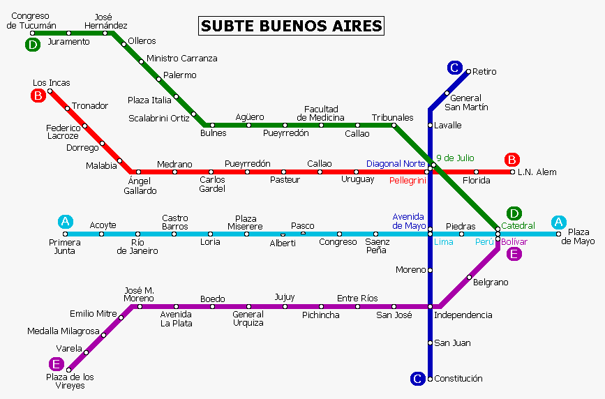 map of the Buenos Aires metro (subte)